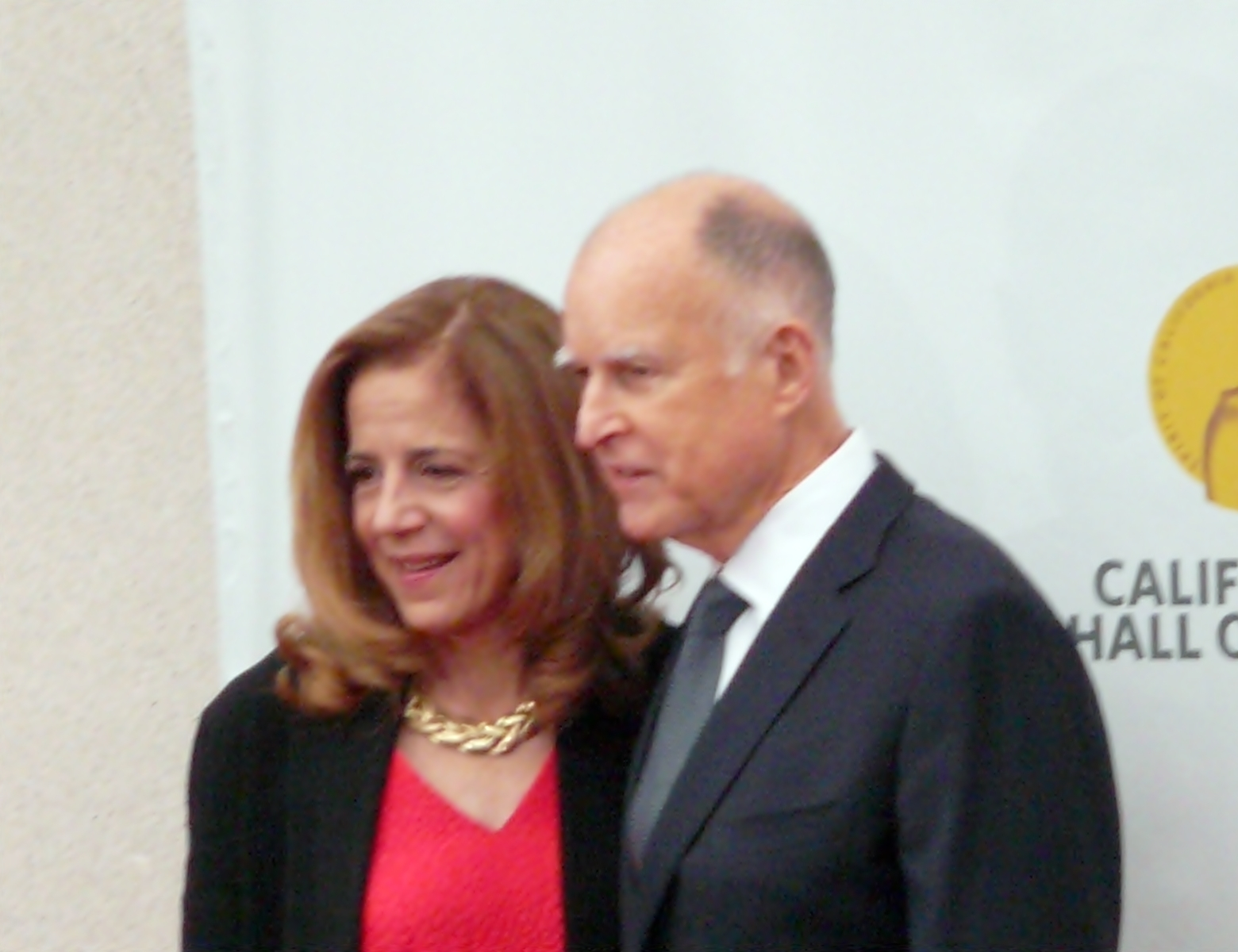 California Governor Jerry Brown attending the California Museum Hall of Fame ceremony March 20 2013